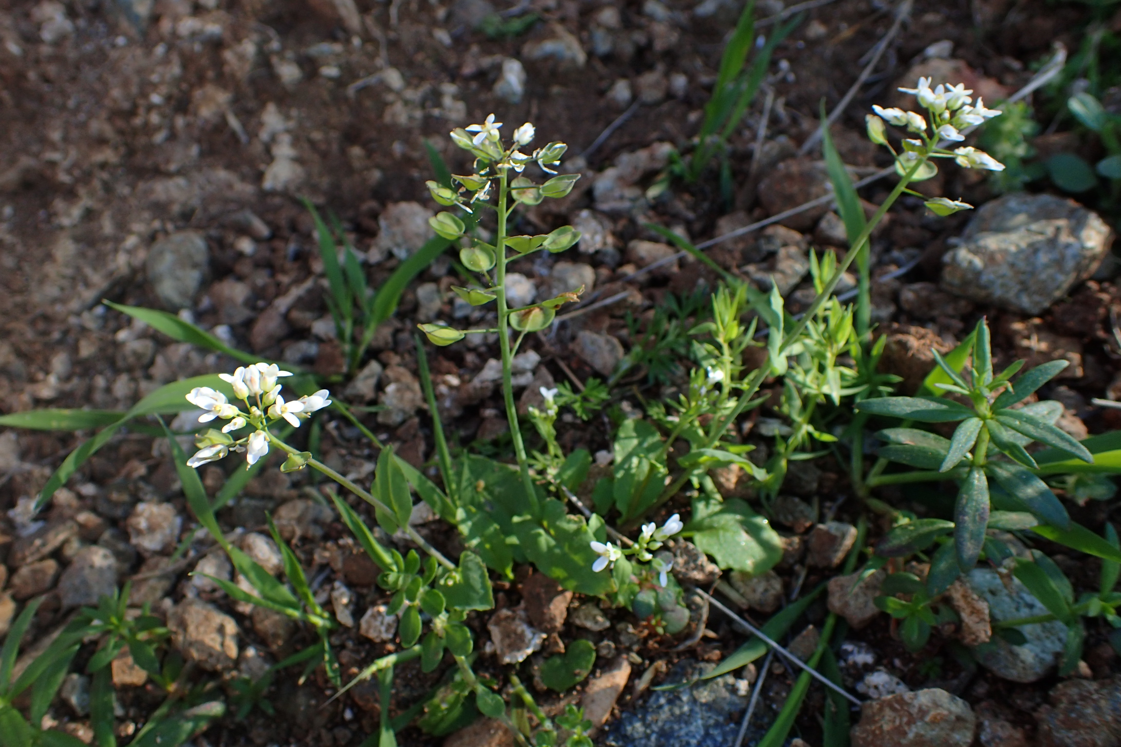 Microthlaspi perfoliatum on Akamas Peninsula, Cyprus